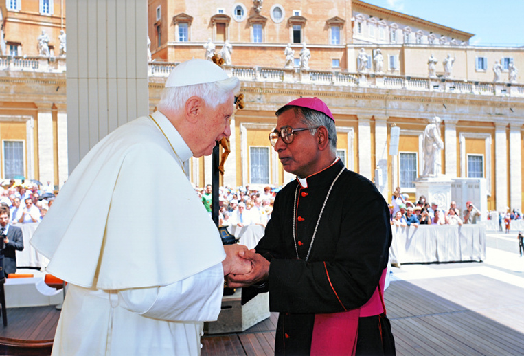 Most Rev. Anthony Anandarayar and His Holiness Pope Benedict XVI